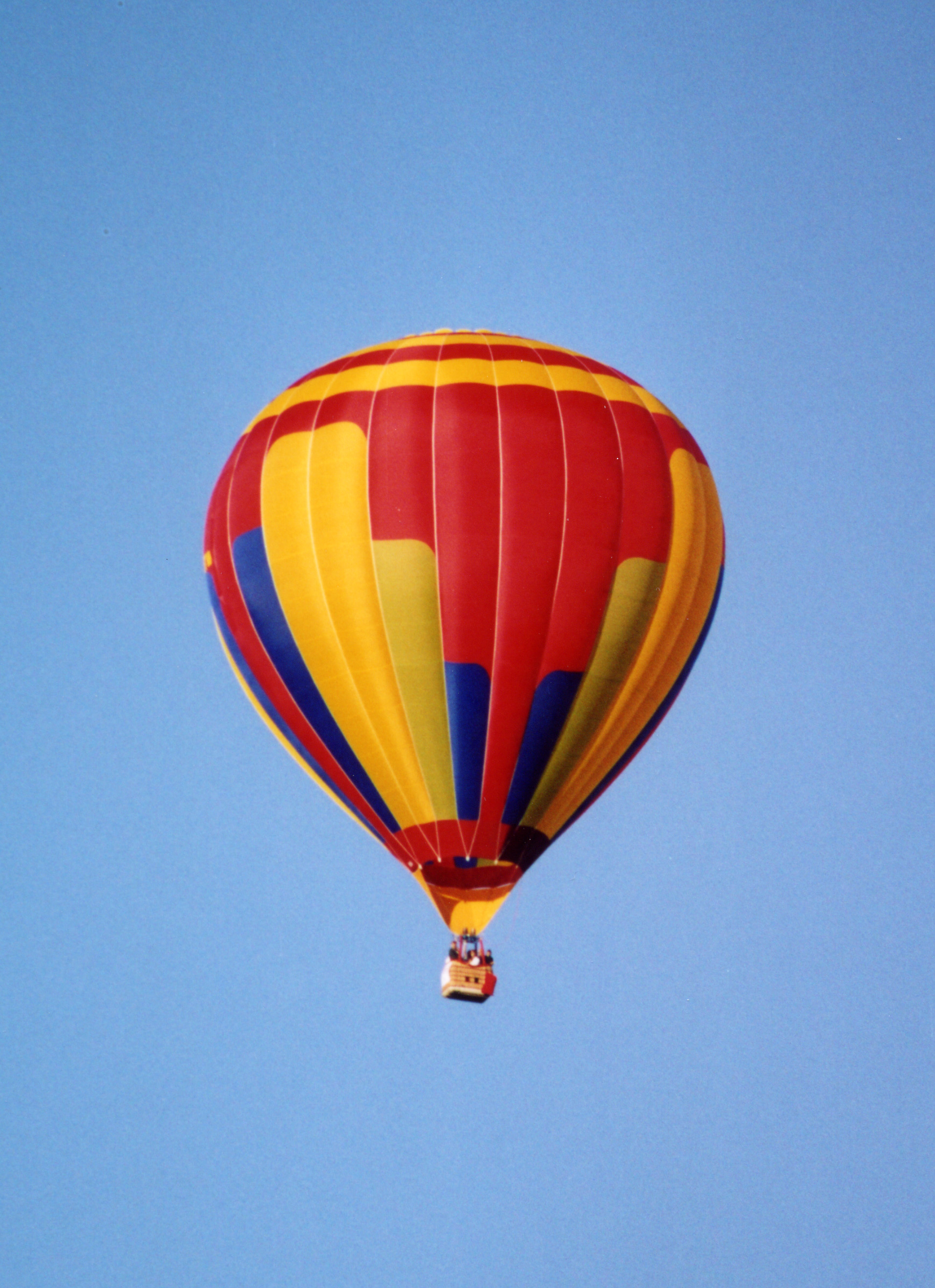 A hot air balloon in flight over Quebec. Photo taken August 2005